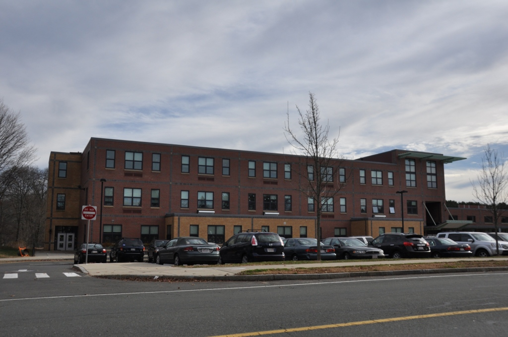 The modern Woodville School in Wakefield, Massachusetts.